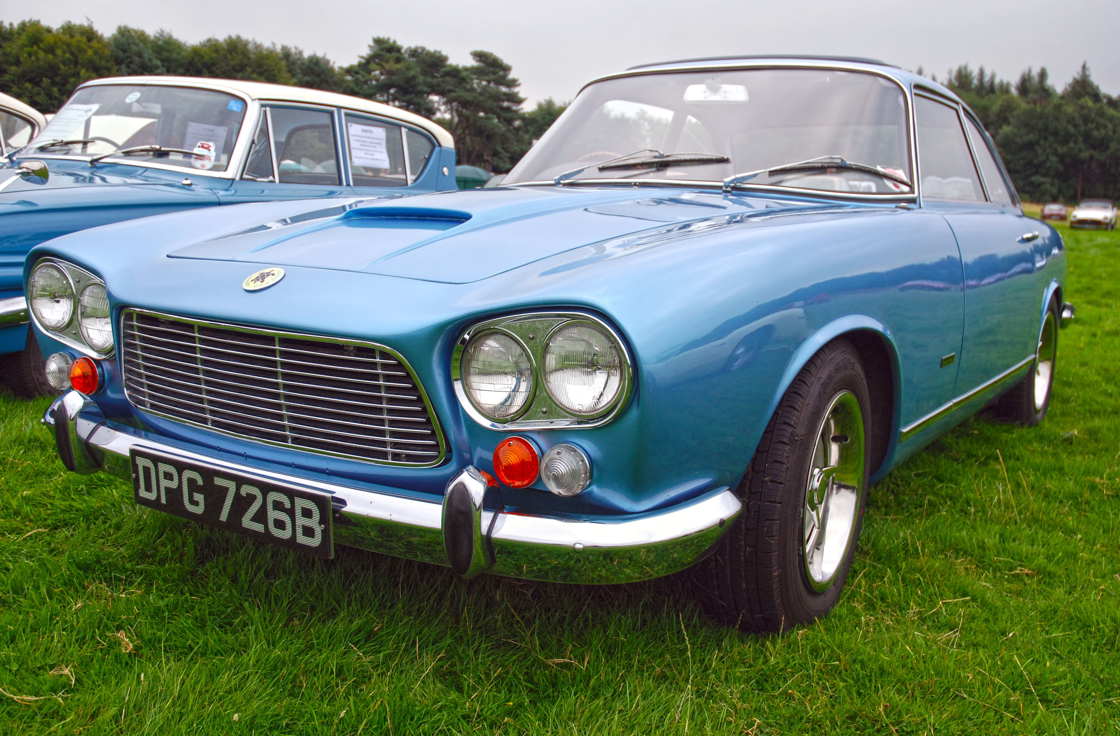 Capesthorne,Aug 2013